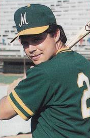 Professional baseball player Ron Coomer